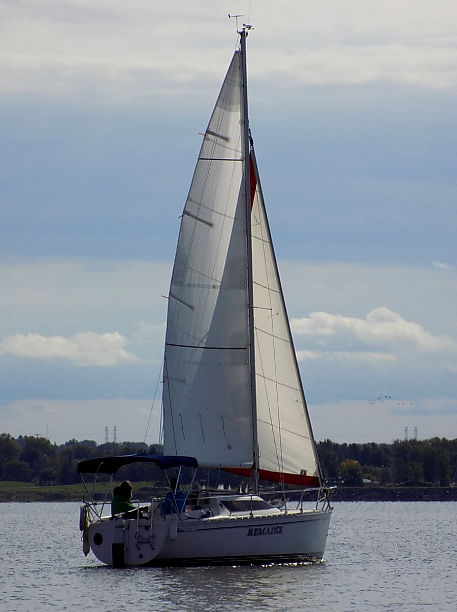 A Tonic 23 sailboat named Remadee.